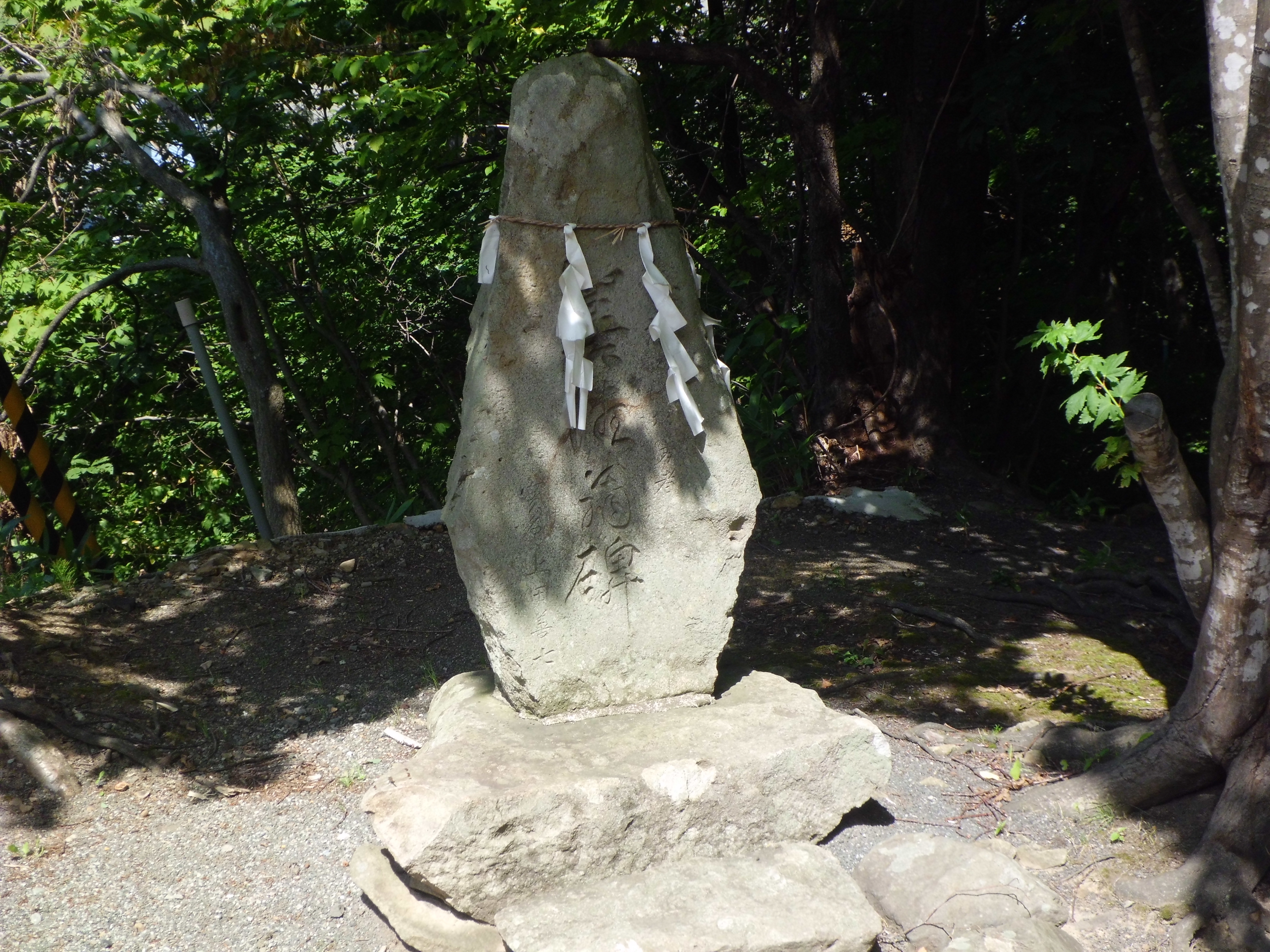 Monument of Zenshichi Ueda at Maruyama Nishimachi